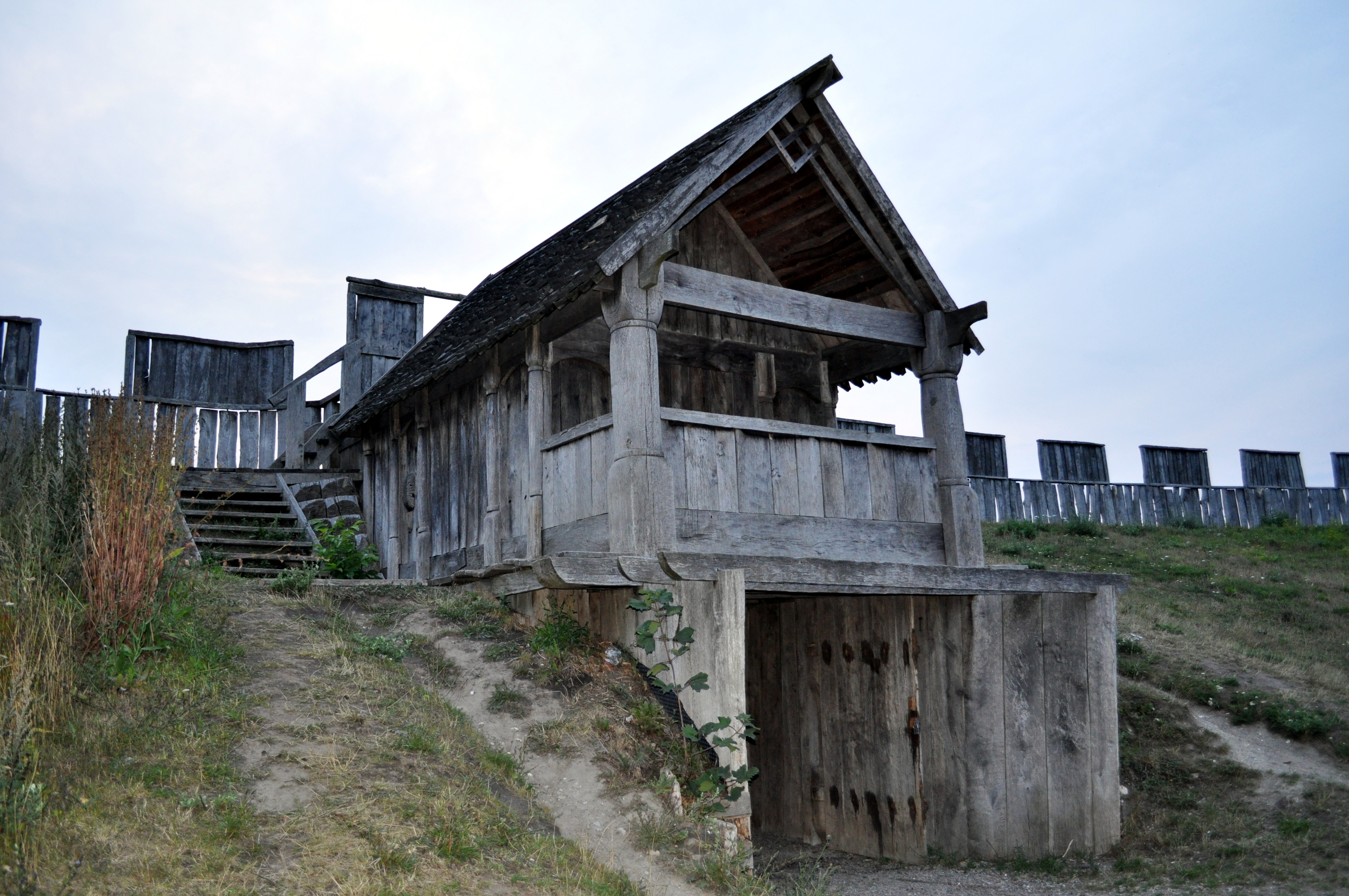 Gatehouse of the Westgate of the Trelleborg in Trelleborg (Sweden)